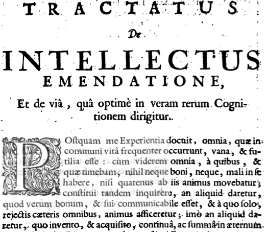 The cover page of the Tractatus de Intellectus in Spinoza's 'Opera Posthuma' (1677).